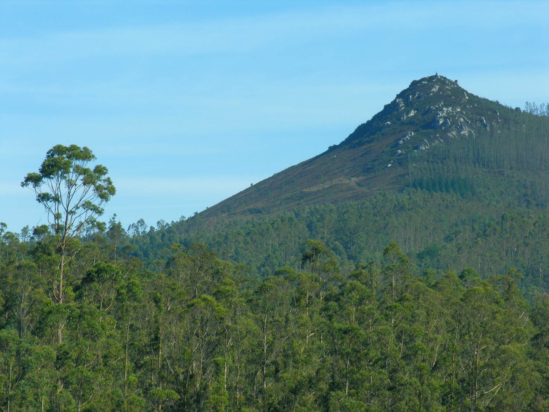 Publish by= Luis Miguel Bugallo Sánchez.